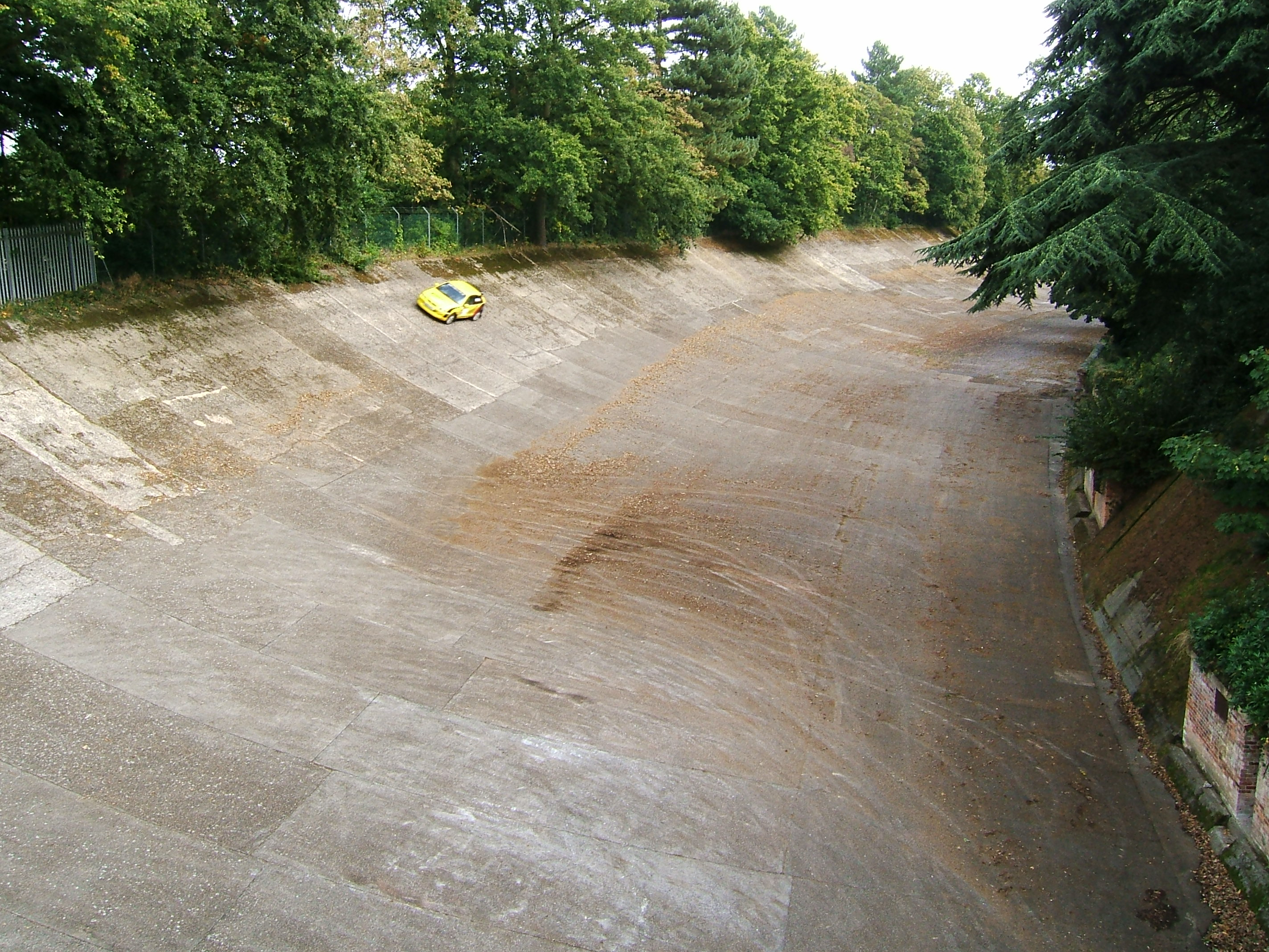 A modern MG rally car runs around the upper edge of the Members' Banking at Brooklands motor racing circuit, Surrey, UK. The shot was taken from the Members' Bridge, over the circuit.